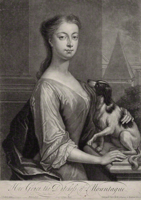 Portrait of Lady Mary Montagu (Churchill), Duchess of Montagu